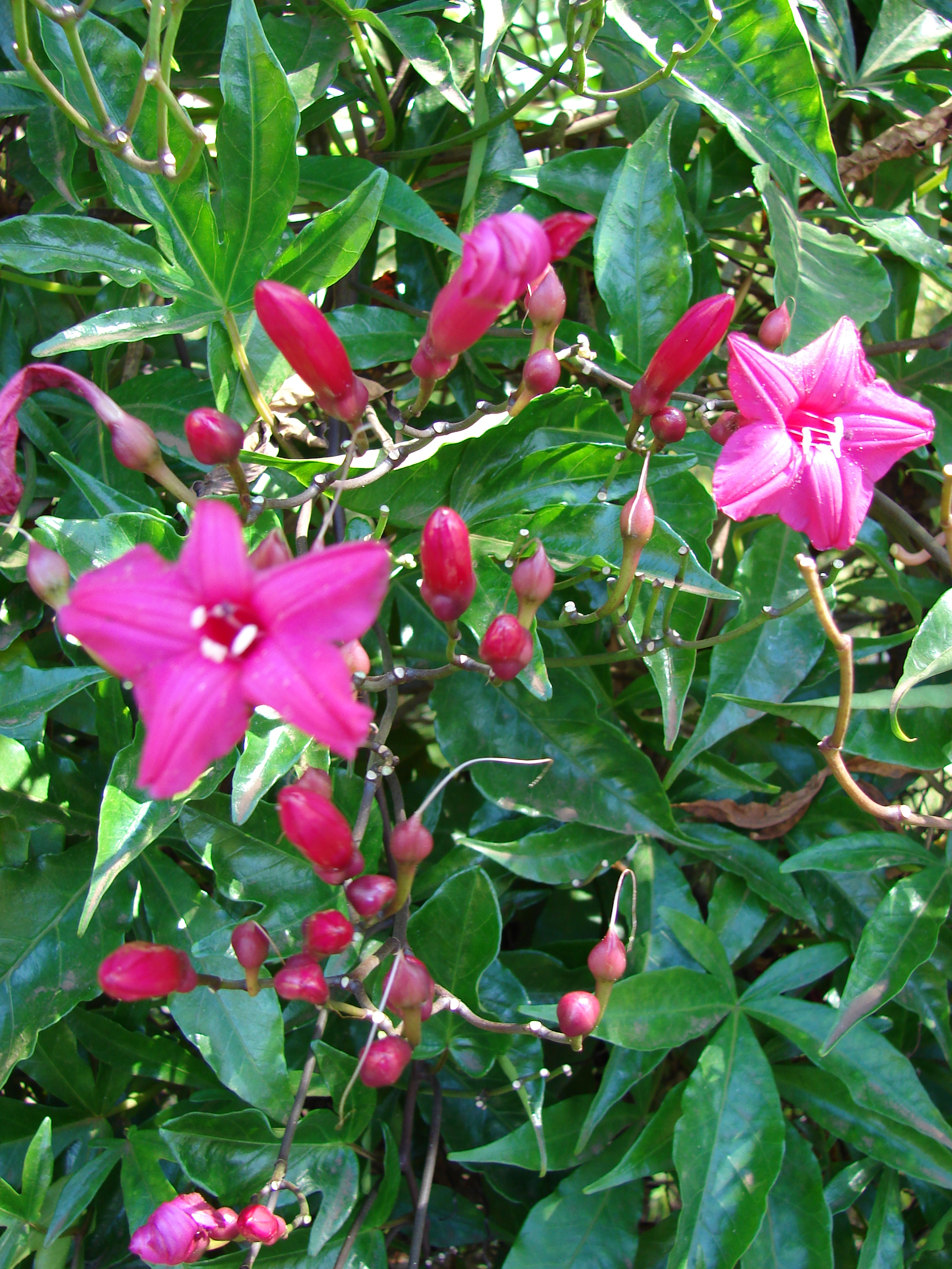 Ipomoea horsfalliae (flowers and leaves). Location: Maui, Enchanting Floral Gardens of Kula